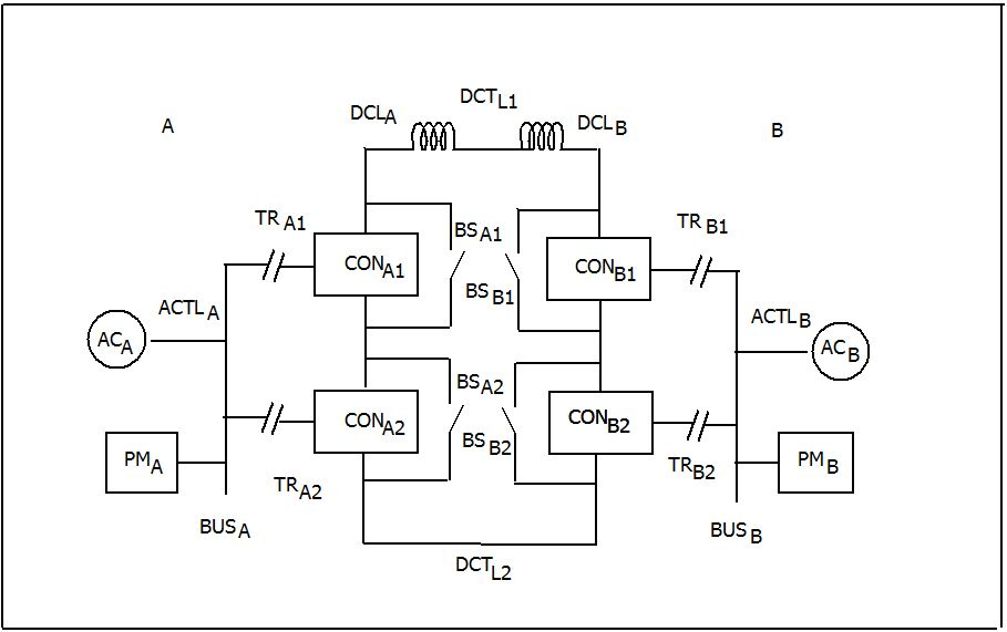 Bipole HVDC